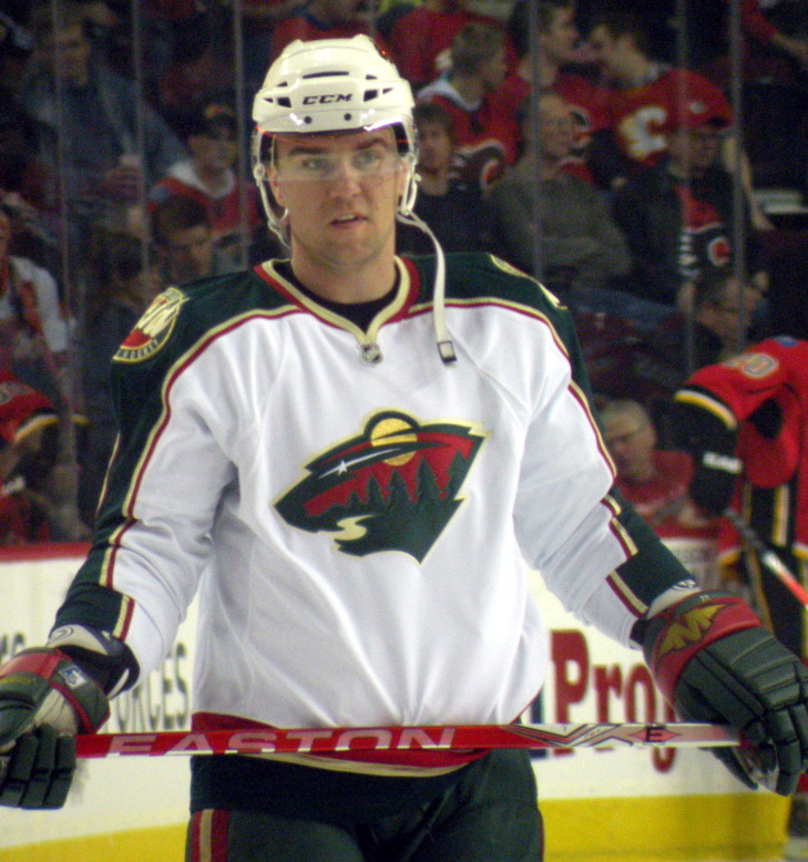 Minnesota Wild defenceman Marek Zidlicky during warm-up prior to a National Hockey League game against the Calgary Flames in Calgary.